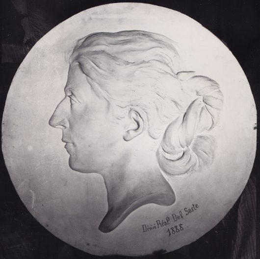 Medaillon of Marie Magdeleine Real del Sarte (1853-1927)